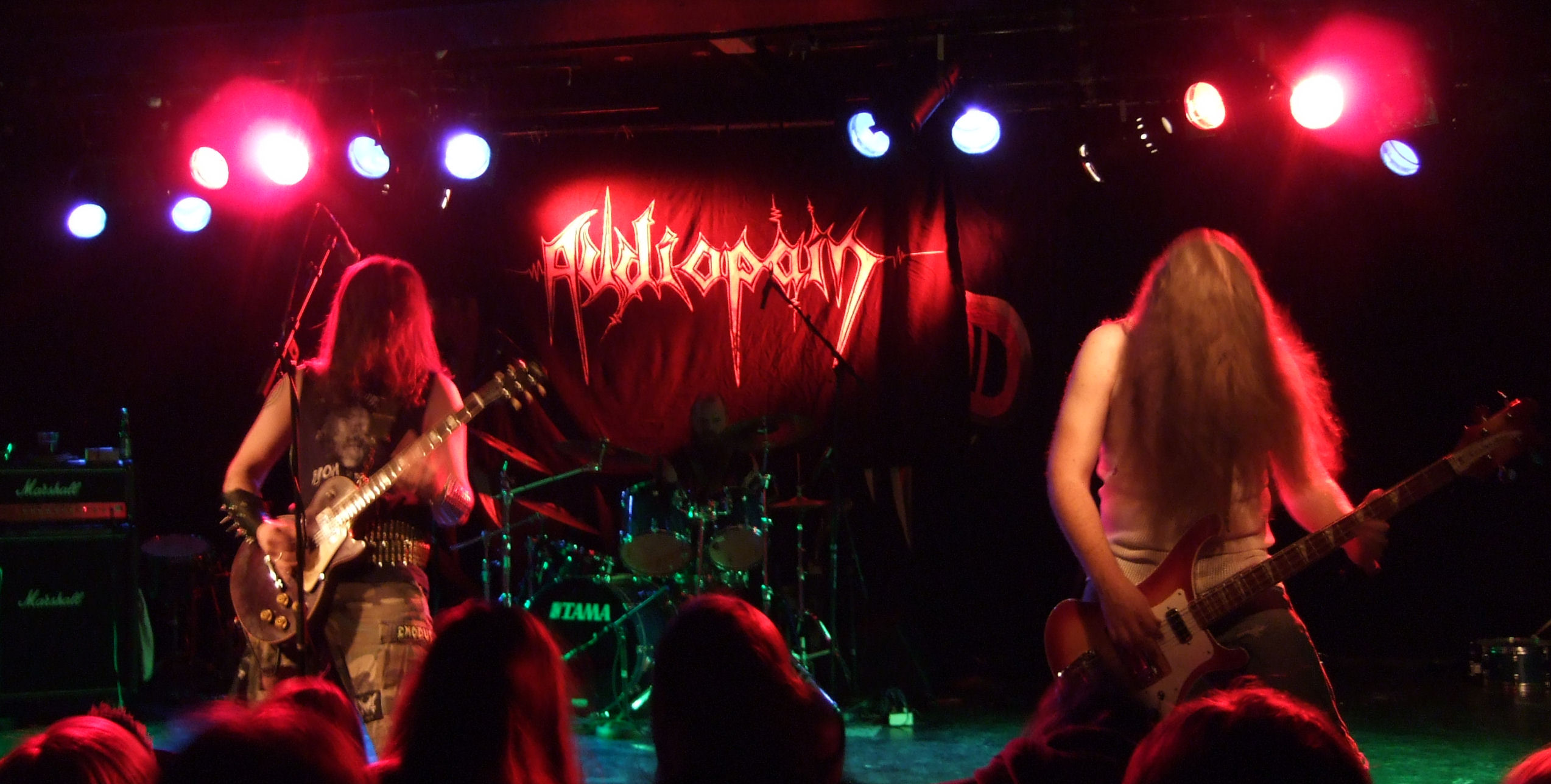 Audiopain live at "South of Heaven", Betong in Oslo, Norway